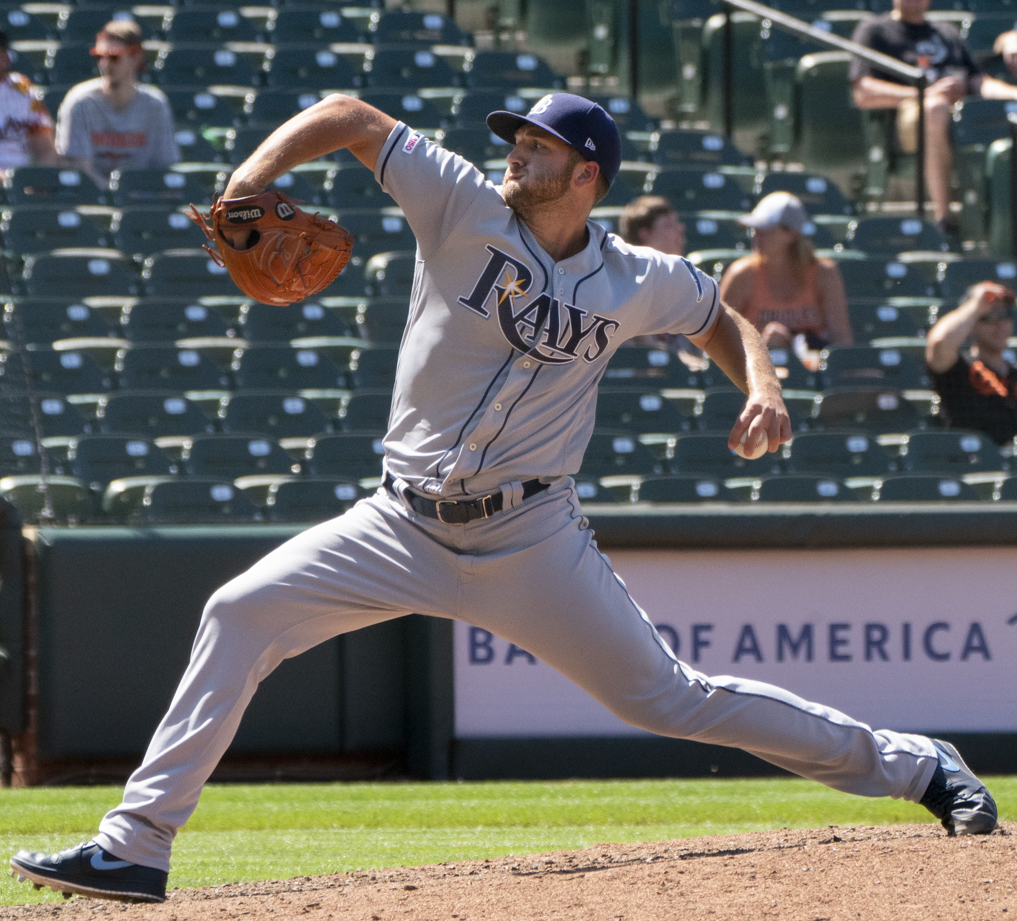 Rays at Orioles 7/13/19